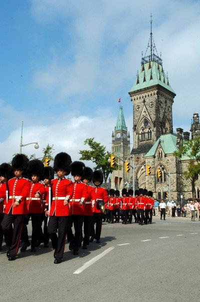 Members of the Canadian Grenadier Guard on parade in Ottawa, Canada.